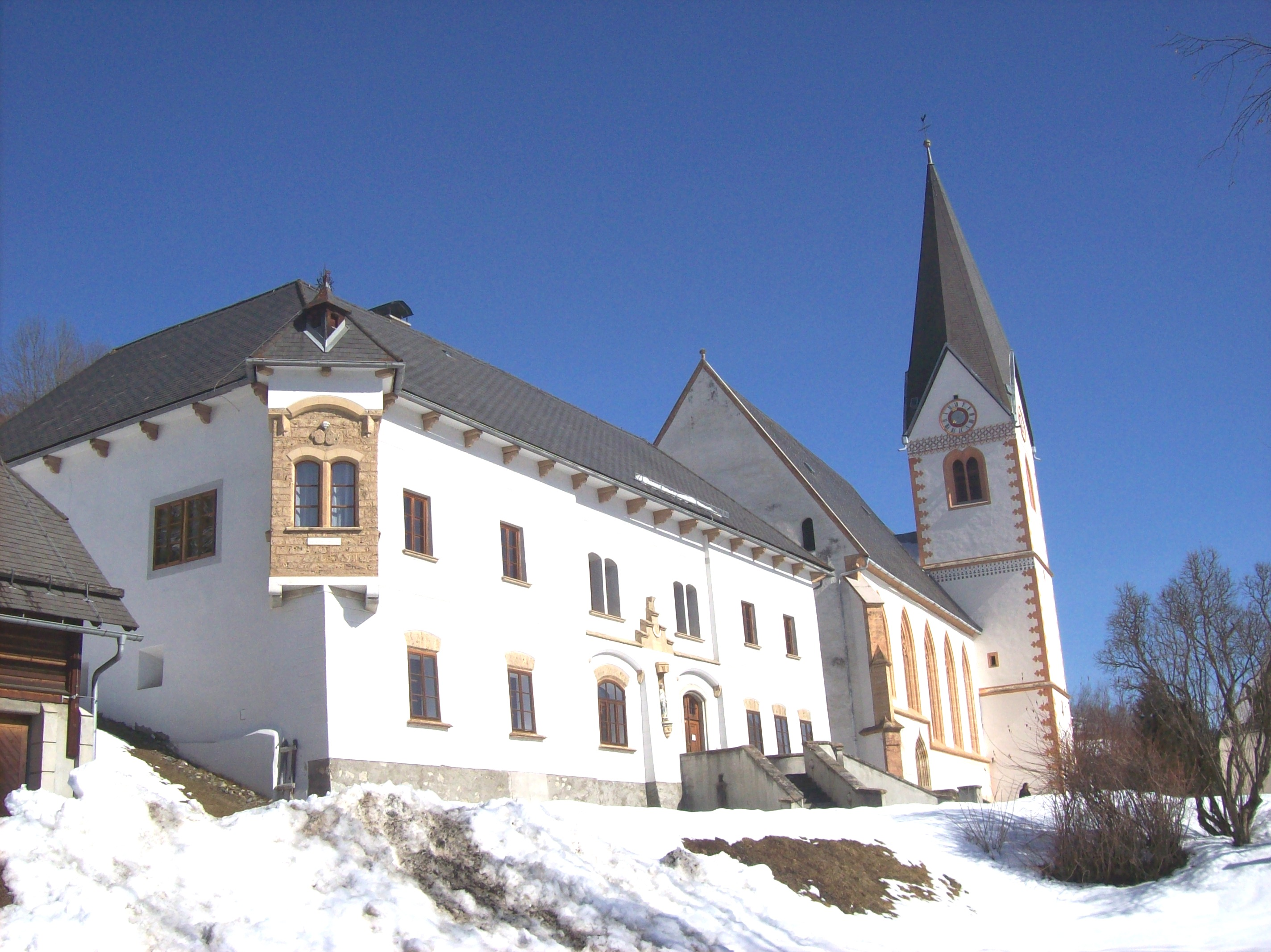 Kath. Pfarrkirche hl. Georg